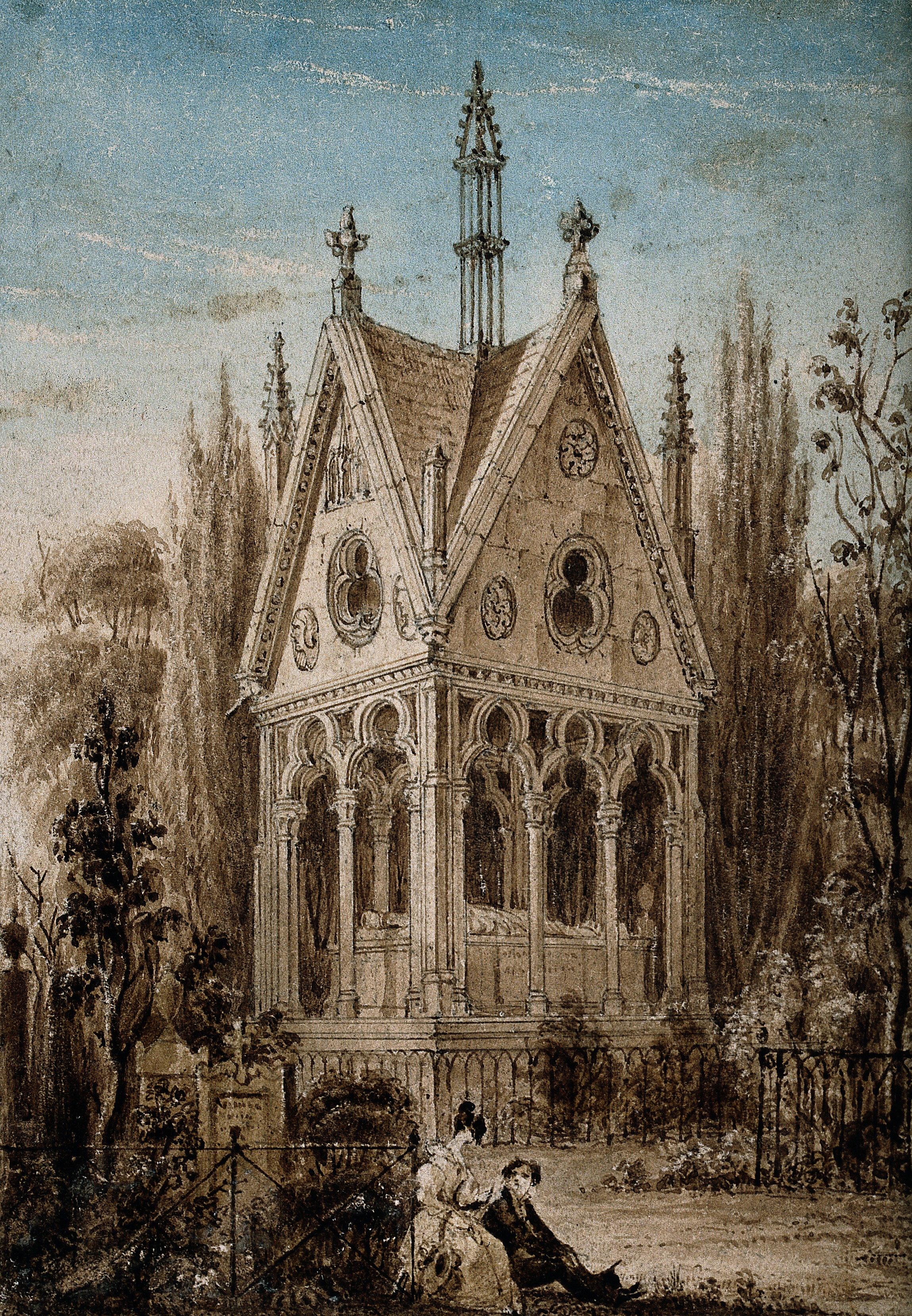 Abelard and Heloise: monument in Père Lachaise cemetery, Paris. Coloured drawing with gouache. Iconographic Collections Keywords: Héloïse; J. Haigh; Peter Abelard